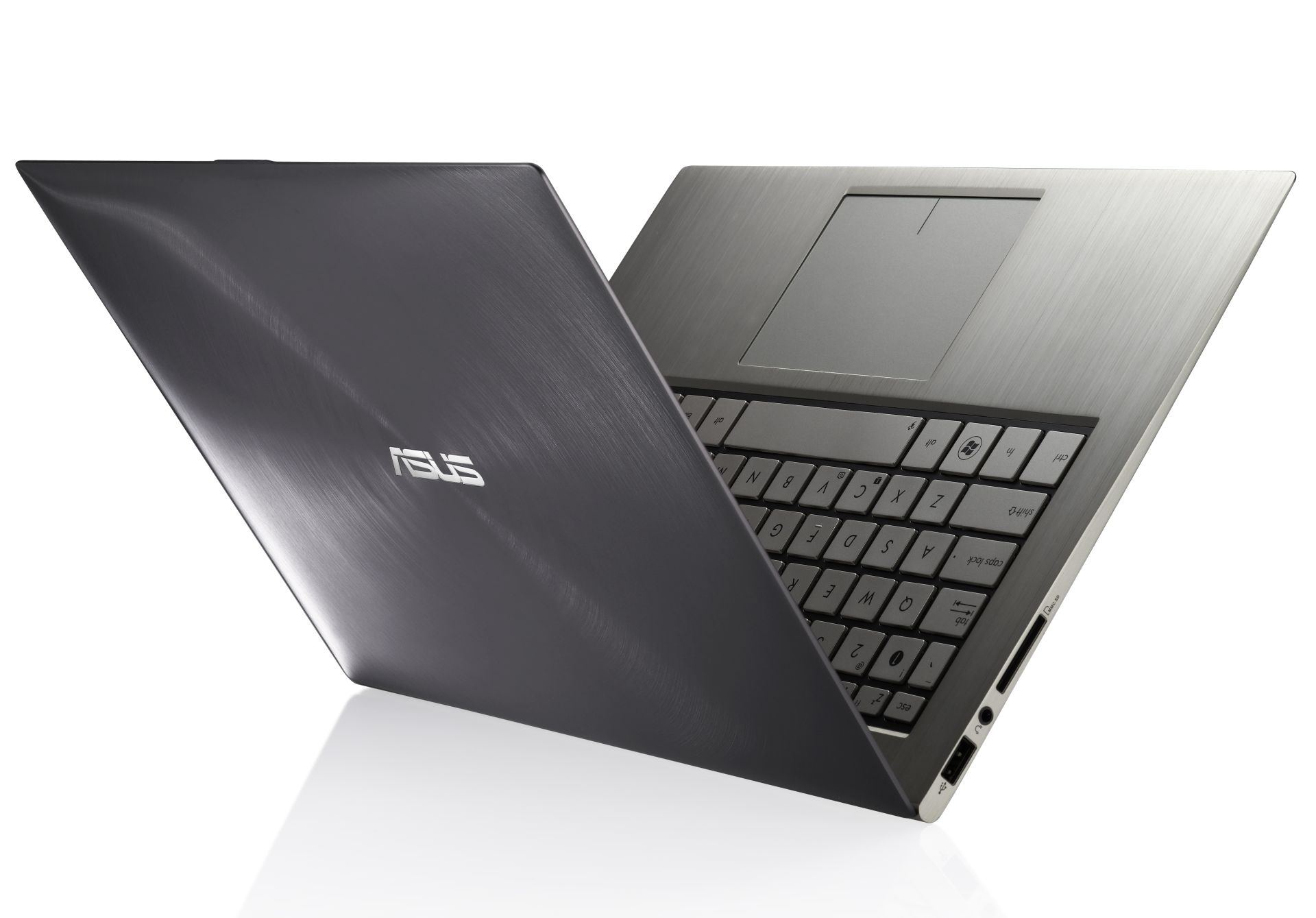 See more: Back to School Computer Buying Tips Choose the right 2 in 1, tablet, Ultrabook, laptop, desktop all-in-one, laptop, or smarphone to gear up your child for the school year. With summertime winding down, it's time for parents and kids to gear up for the school year and that means selecting the right technology. With so many different types of devices being advertised today -- from desktop PCs, laptops and Ultrabooks, 2 in 1s, phones to tablets -- finding the right product at the right price is more challenging than ever. School-bound students may know already what computer or smartphone they want, but these tips will help parents guide their child to make the right choice that fit their needs.